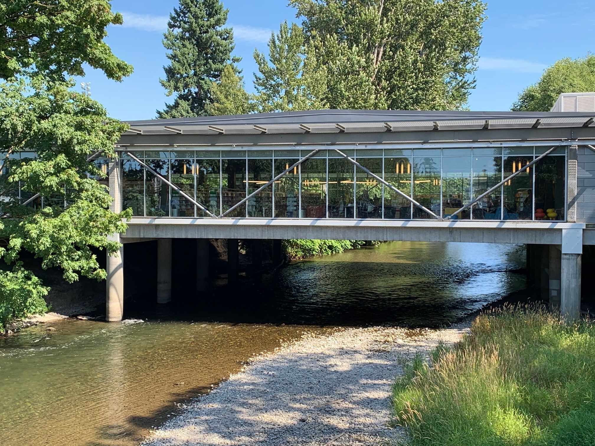 The Renton Public Library spans the Cedar River in Renton, WA. Originally constructed in 1966, it was completely rebuilt in 2014-2015 to modern standards.